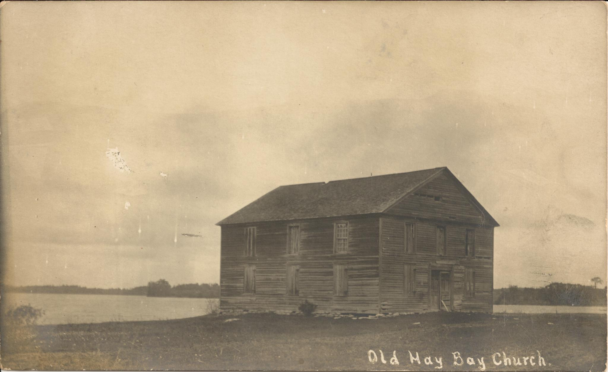 Photo-postcard, c.1908, of the Old Hay Bay Church, Adolphustown, Ontario, built 1792. From the collection of Kenneth Brown, loaned for scanning by the Archives, March 2011.